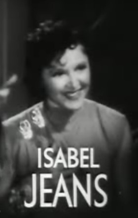 Cropped screenshot of Isabel Jeans from the trailer for the film Tovarich.